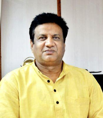 Dr. rajnish kumar, Secretary, Rajghat Samadhi committee